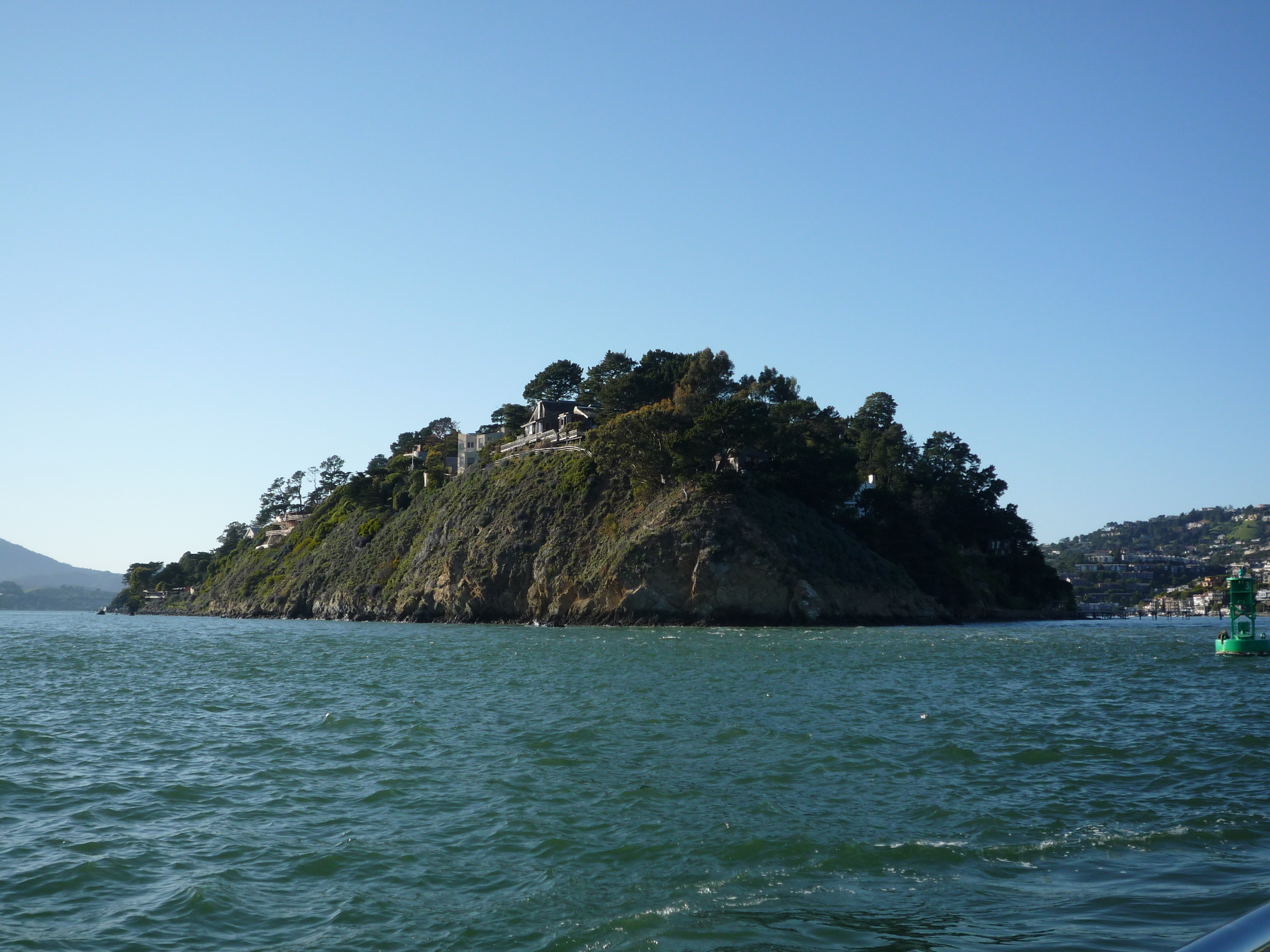 Taken while sailing.